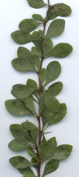 Leaves and stem of Berberis thunbergii